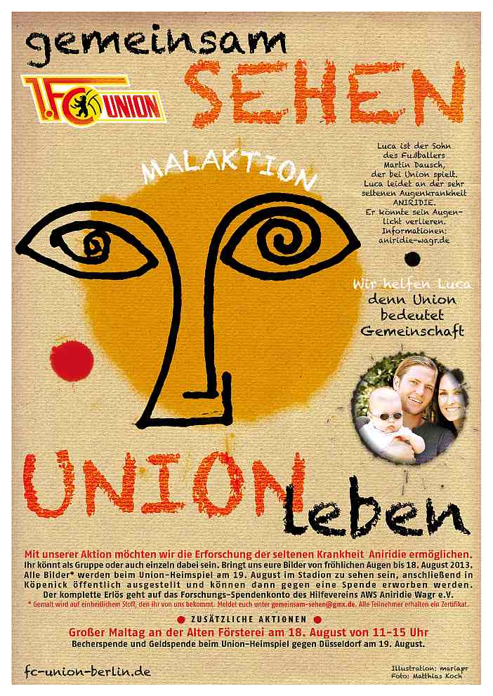 Poster of the charity activity of the 1. FC Union Berlin to promote awareness of aniridia and to support research for the rare congenital vision impairment aniridia